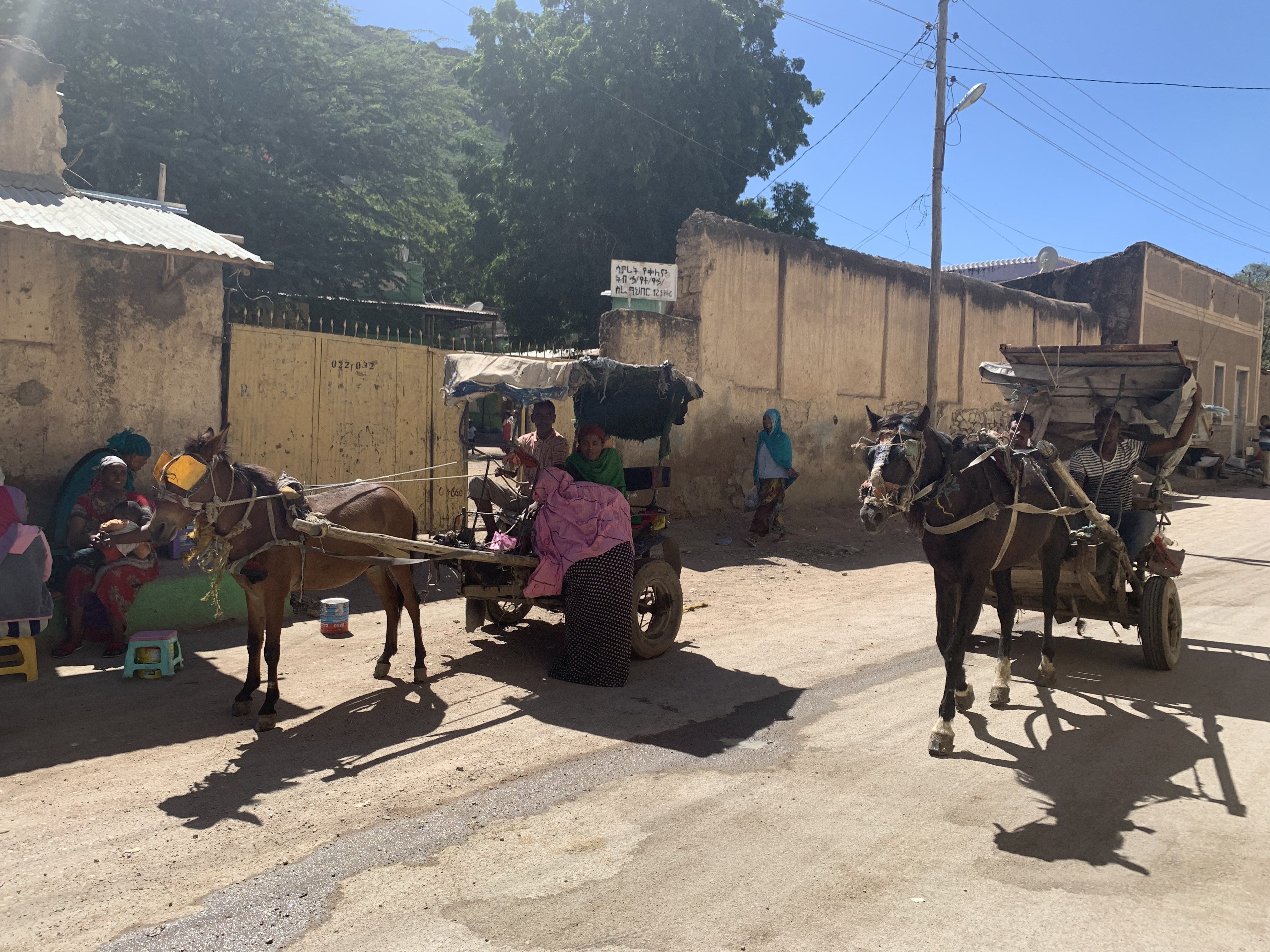 Carts are used to transport people in the streets of Dire Dawa, Ethiopia This is an image with the theme "Africa on the Move or Transport" from: Ethiopia